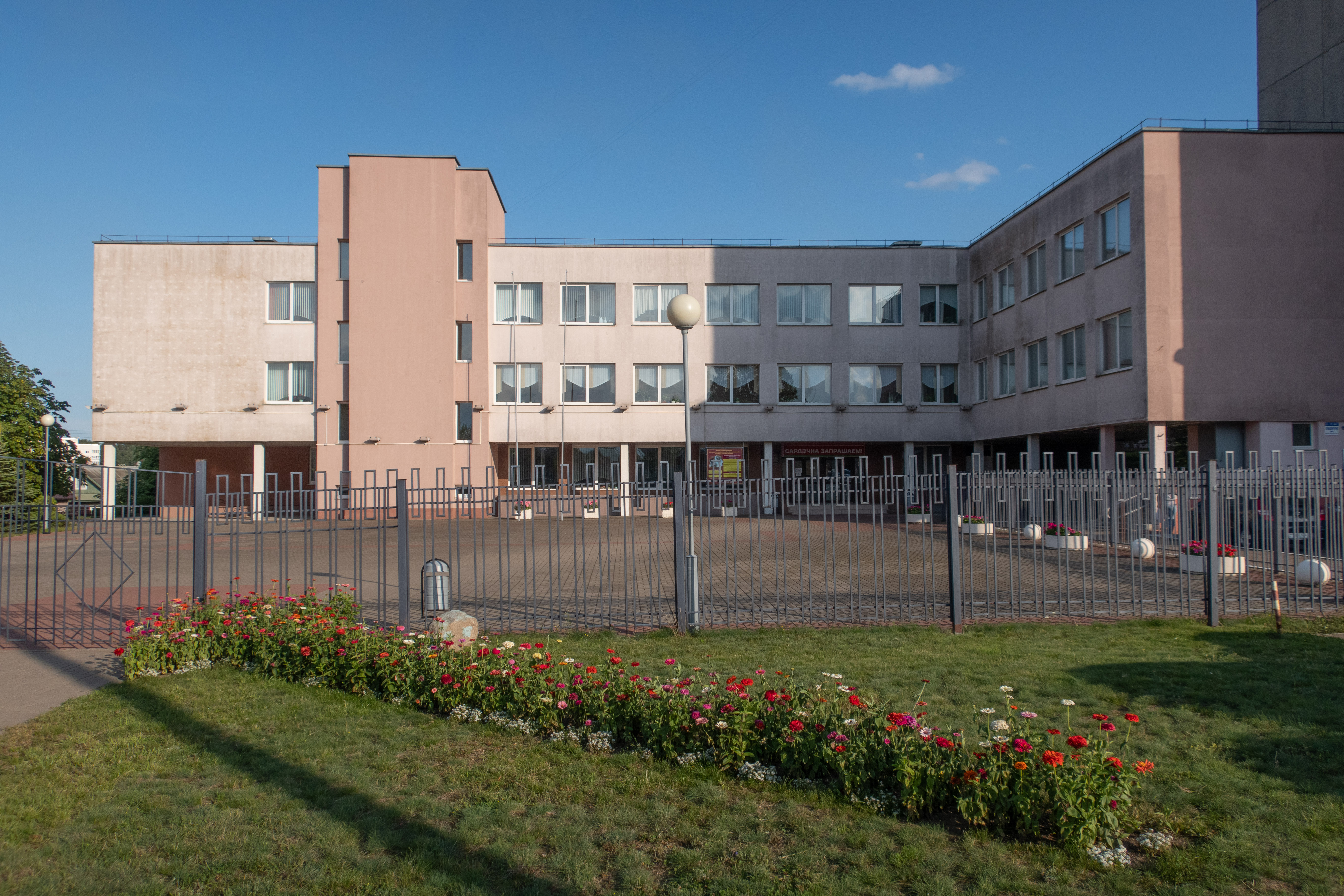 Professional lyceum No 3 of machinery. Minsk, Belarus